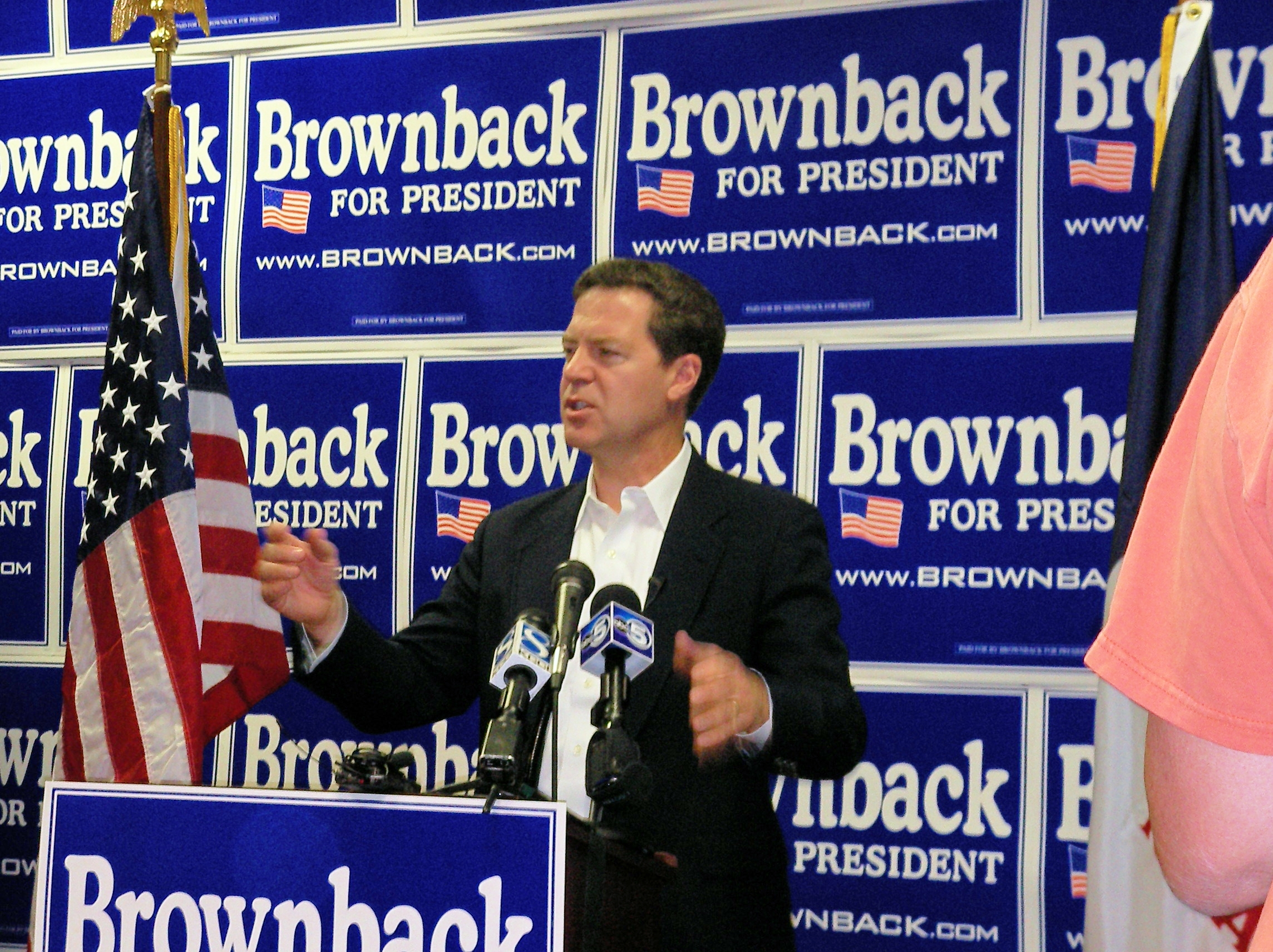 for 2008 election